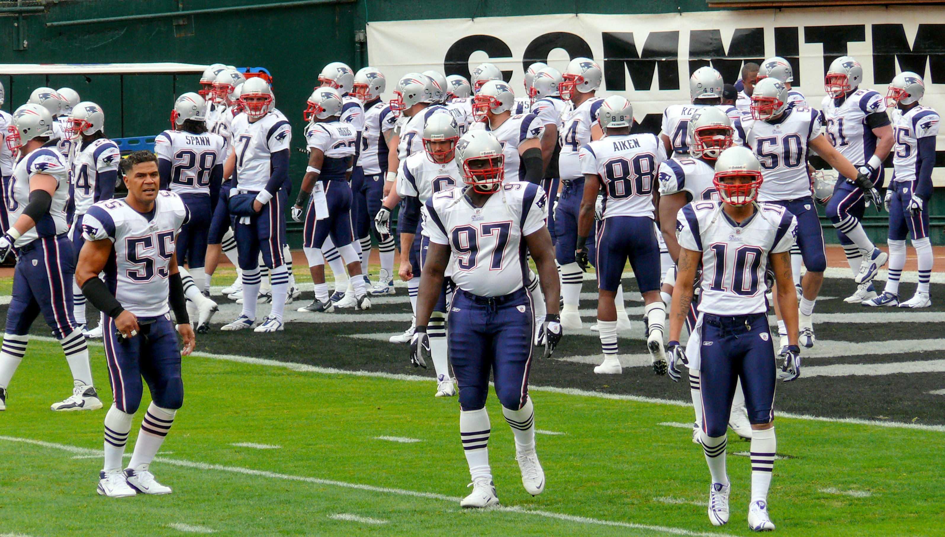 New England Patriots players before a game in 2008. (see w:2008 New England Patriots season for roster.)